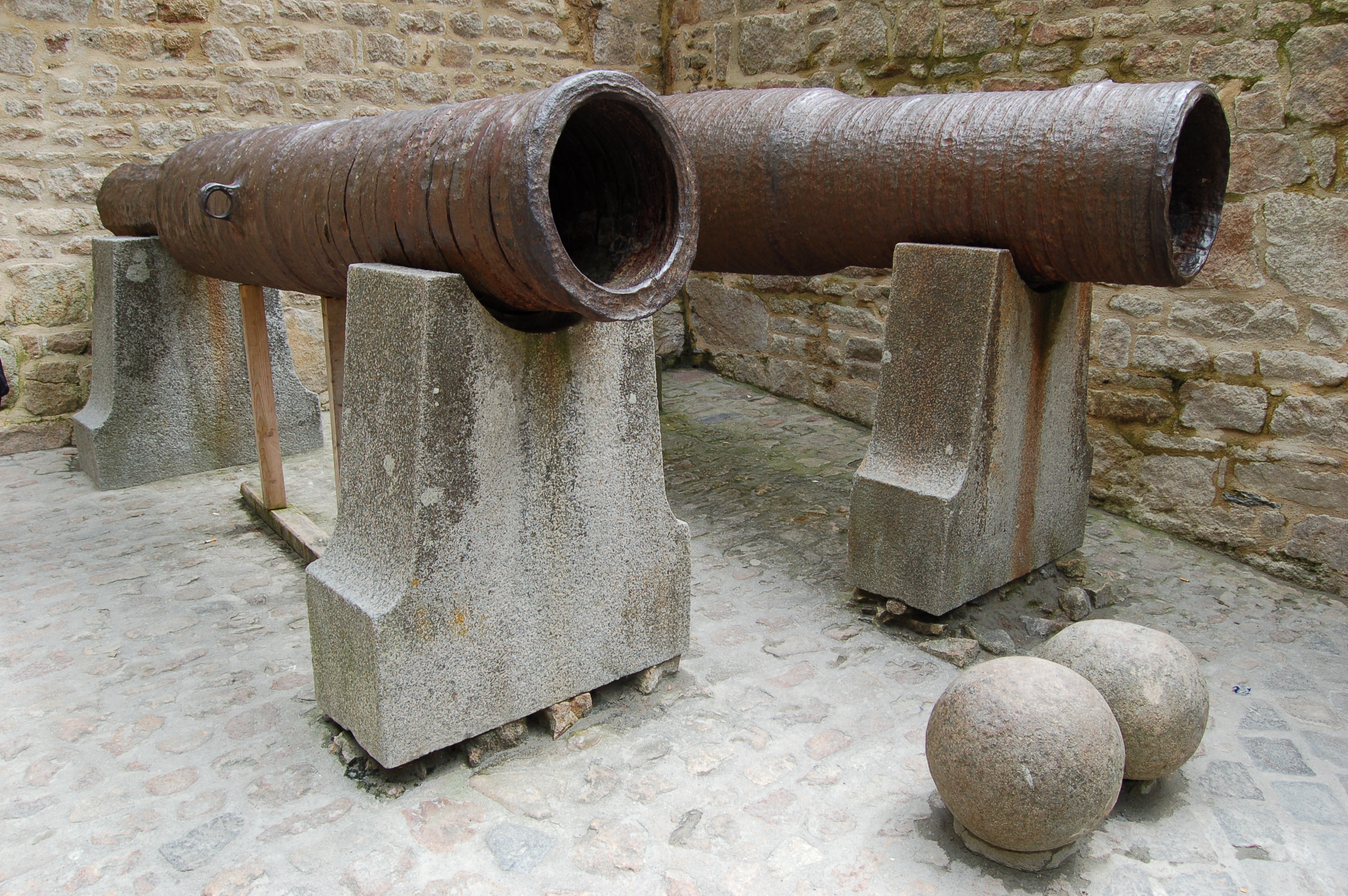 Photograph of the cannons abandonded by Thomas Scalles at Mont Saint-Michel on 17 June 1434. Marked by an explanatory plaque with the words: BOMBARDES ANGLAISES ABANDONNEES PAR L'ARMEE DE THOMAS SCALLES LE 17 JUIN 1434 "CALIBRE 380 - 420"